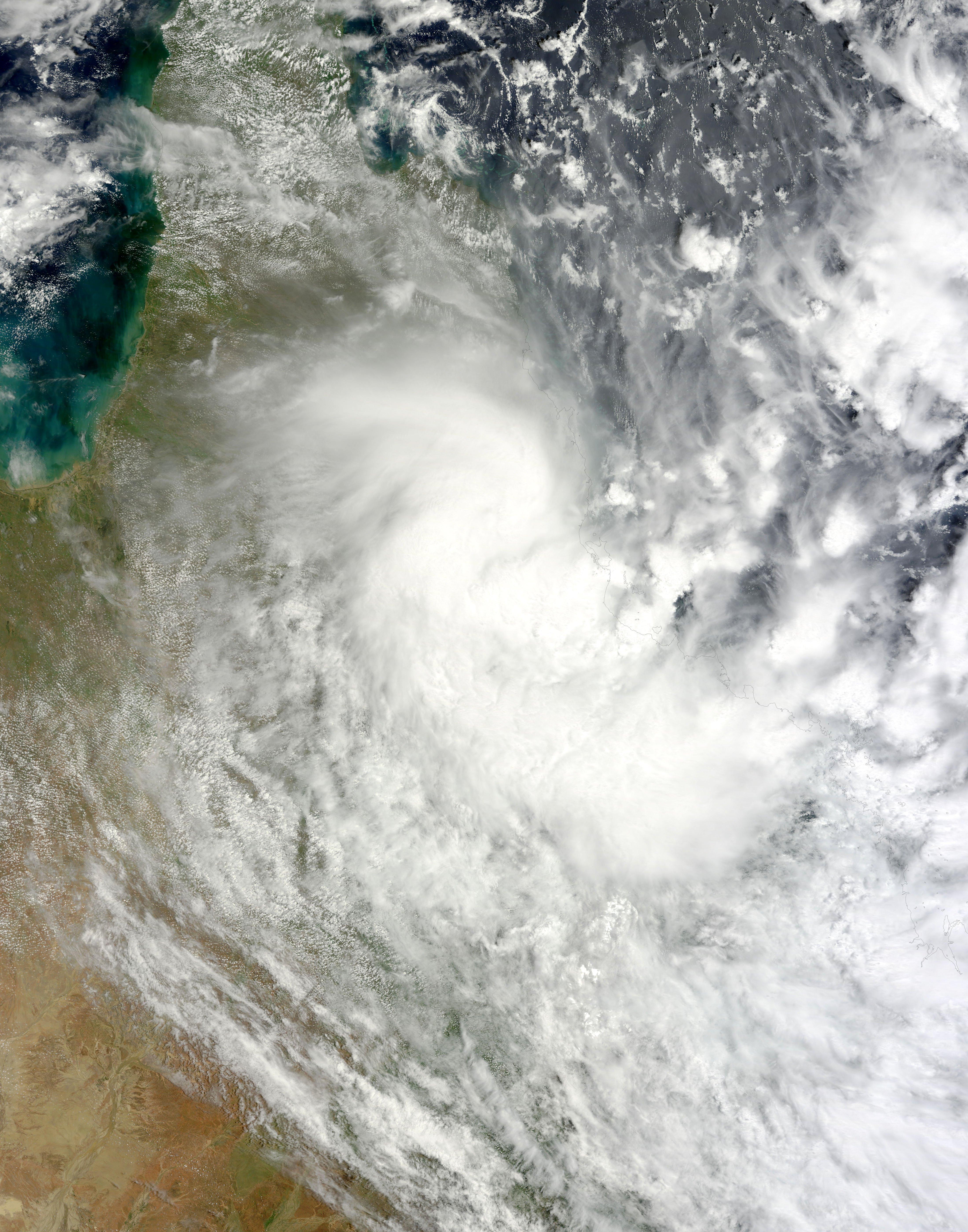 Tropical Cyclone Tasha after making landfall near Cairns, Queensland on December 25, 2010.